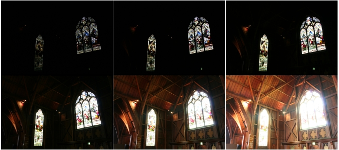 6 exposures illustrating the Steps to take an HDR Image. Final result